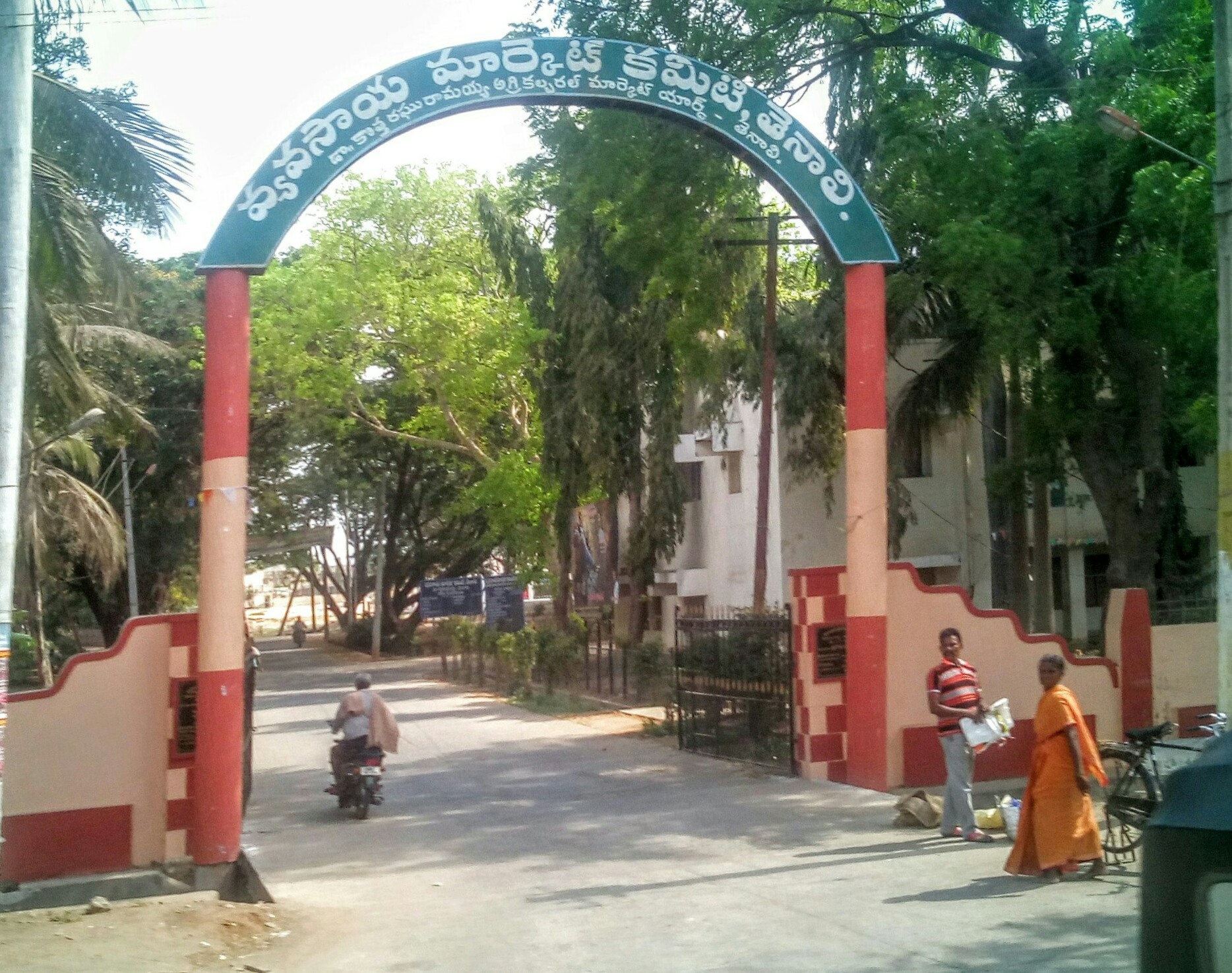 Market committee entrance of Tenali Agricultural marketyard, named after Koththa Raghuramayya.